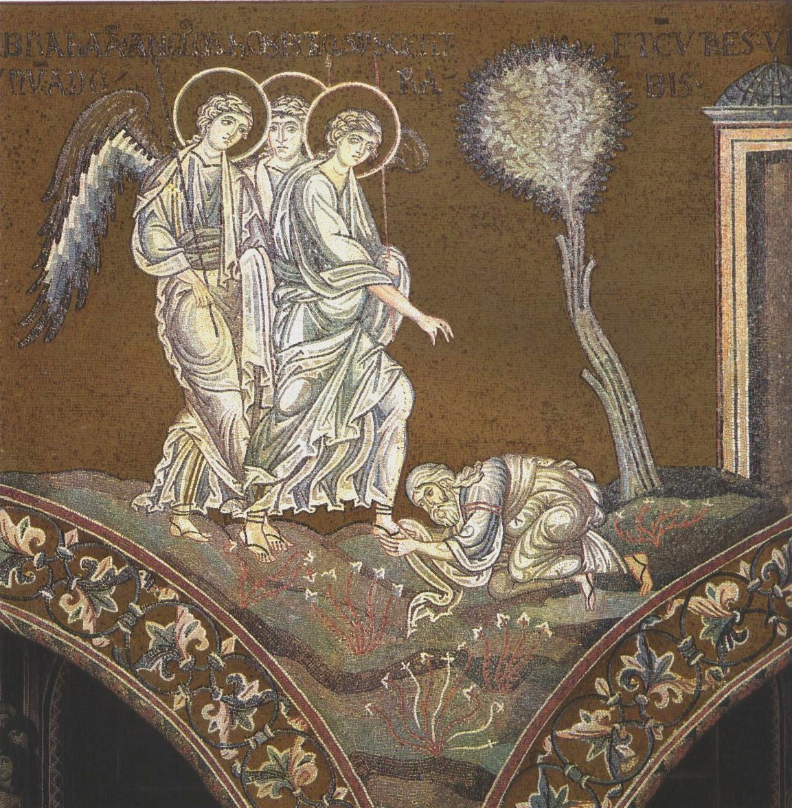 Abraham bends down before Holy Trinity (angelic visitors at Mamre) - mosaic in Monreale Cathedral